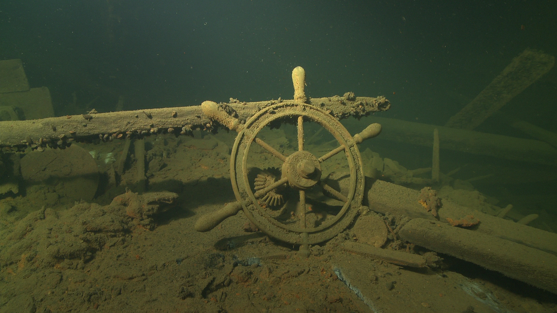 Wreck of cargo ship "E. Russ". Steering wheel. Located north from island Hiiumaa in Estonia.